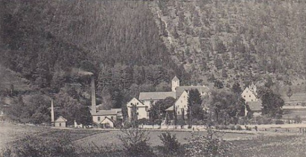 The former female Benedictine convent of Urspring near Schelklingen (Baden-Württemburg) as a cotton mill. Cropped from a postcard issued circa 1900 (postally used in 1904)